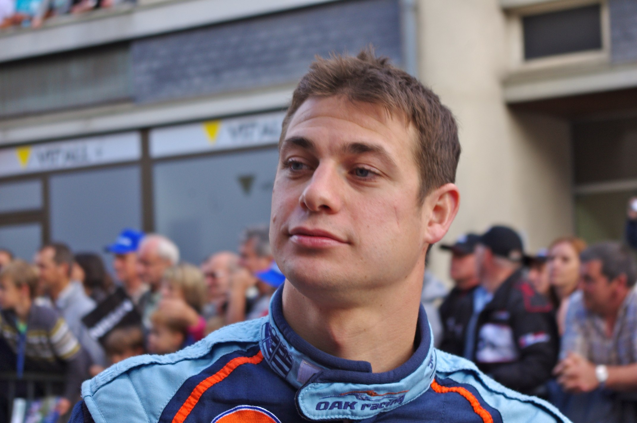 Guillaume Moreau at the Le Mans 24 Hours 2011 Drivers' Parade